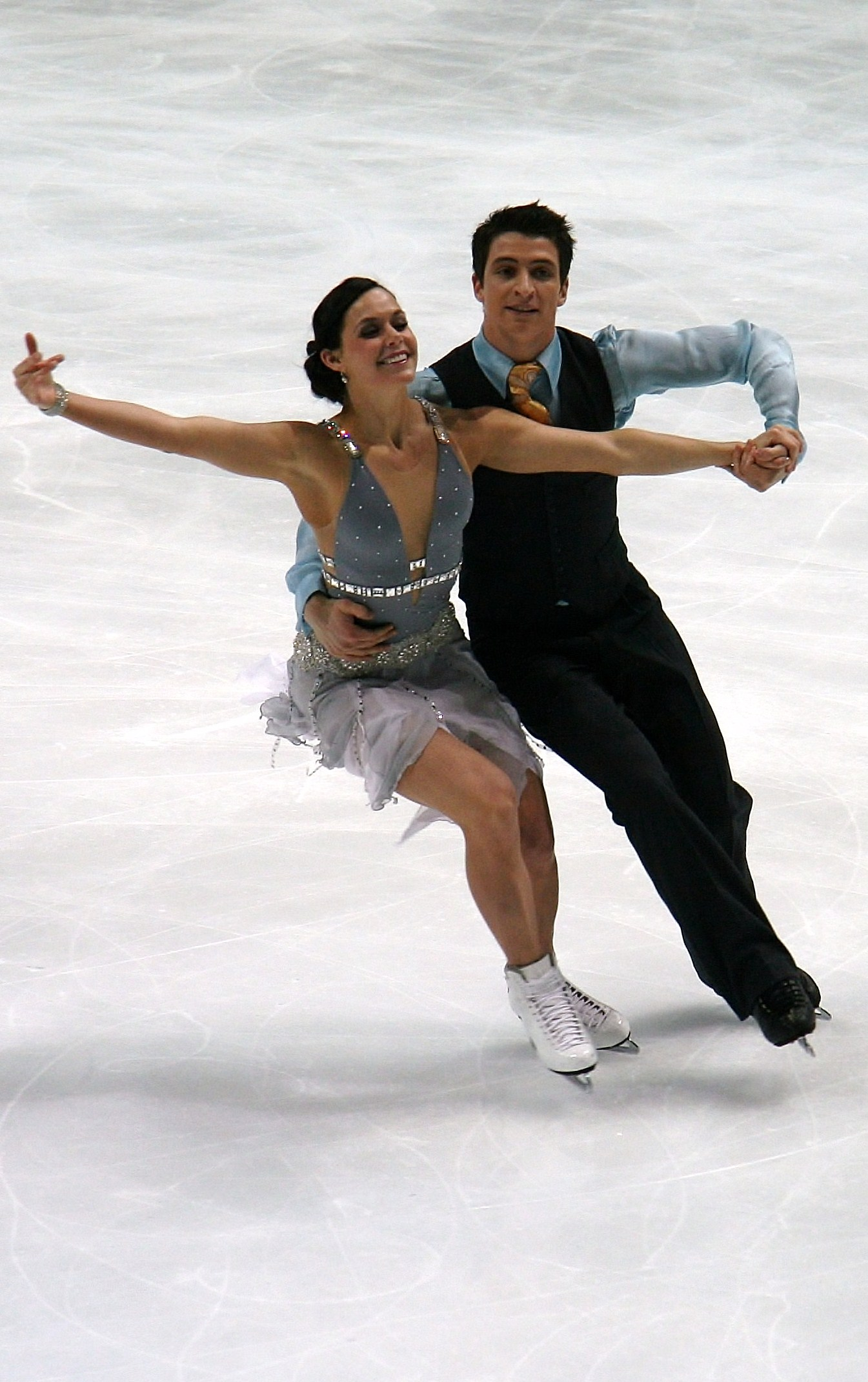 Tessa Virtue and Scott Moir at the 2011 World Figure Skating Championships